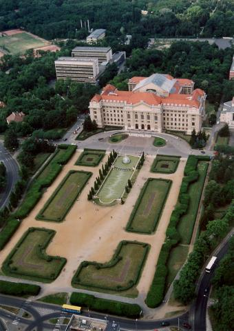 university of debrecen Hungary, aerialphotography